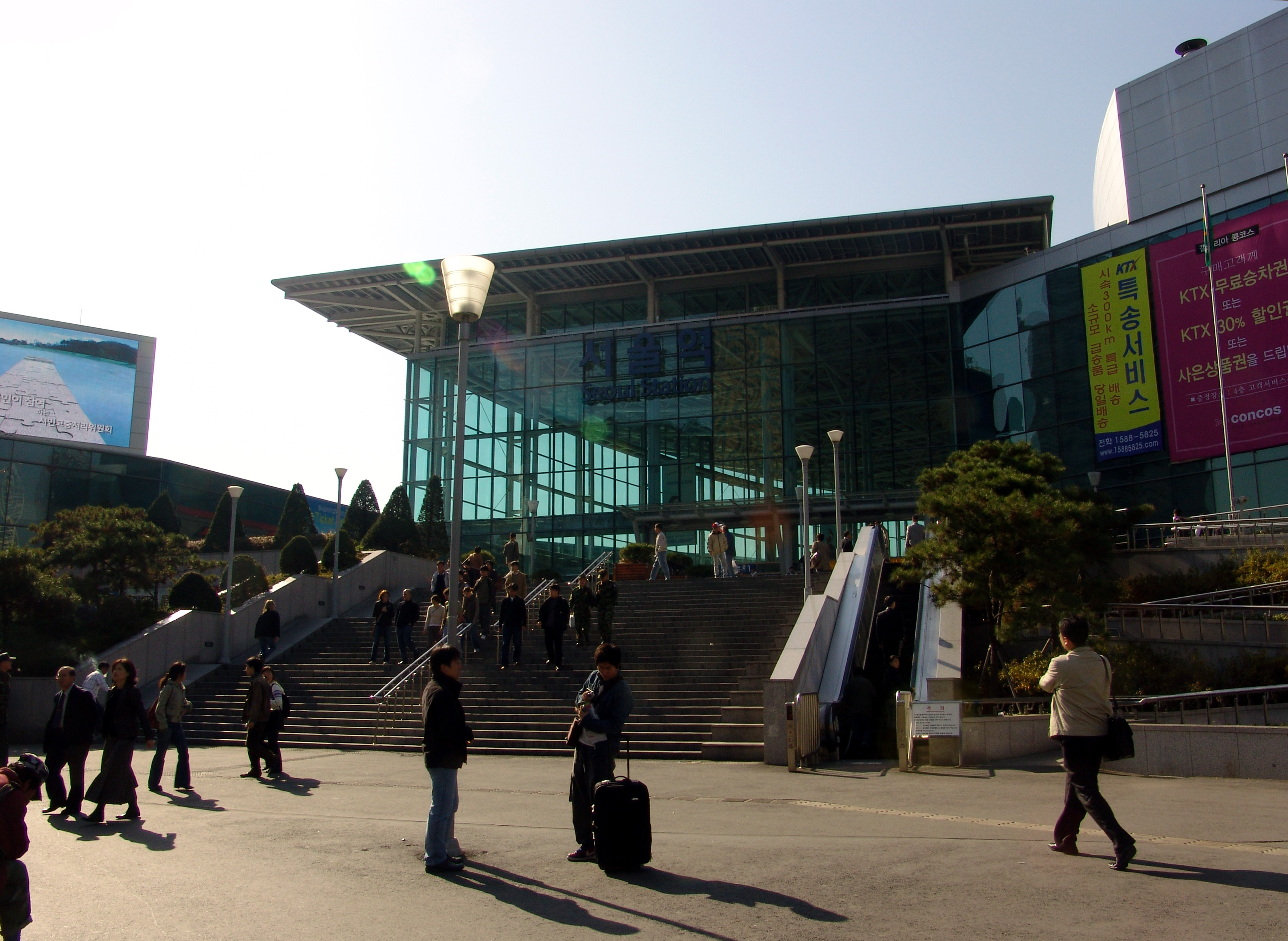 The main entrance of Seoul Station. I took the picture.